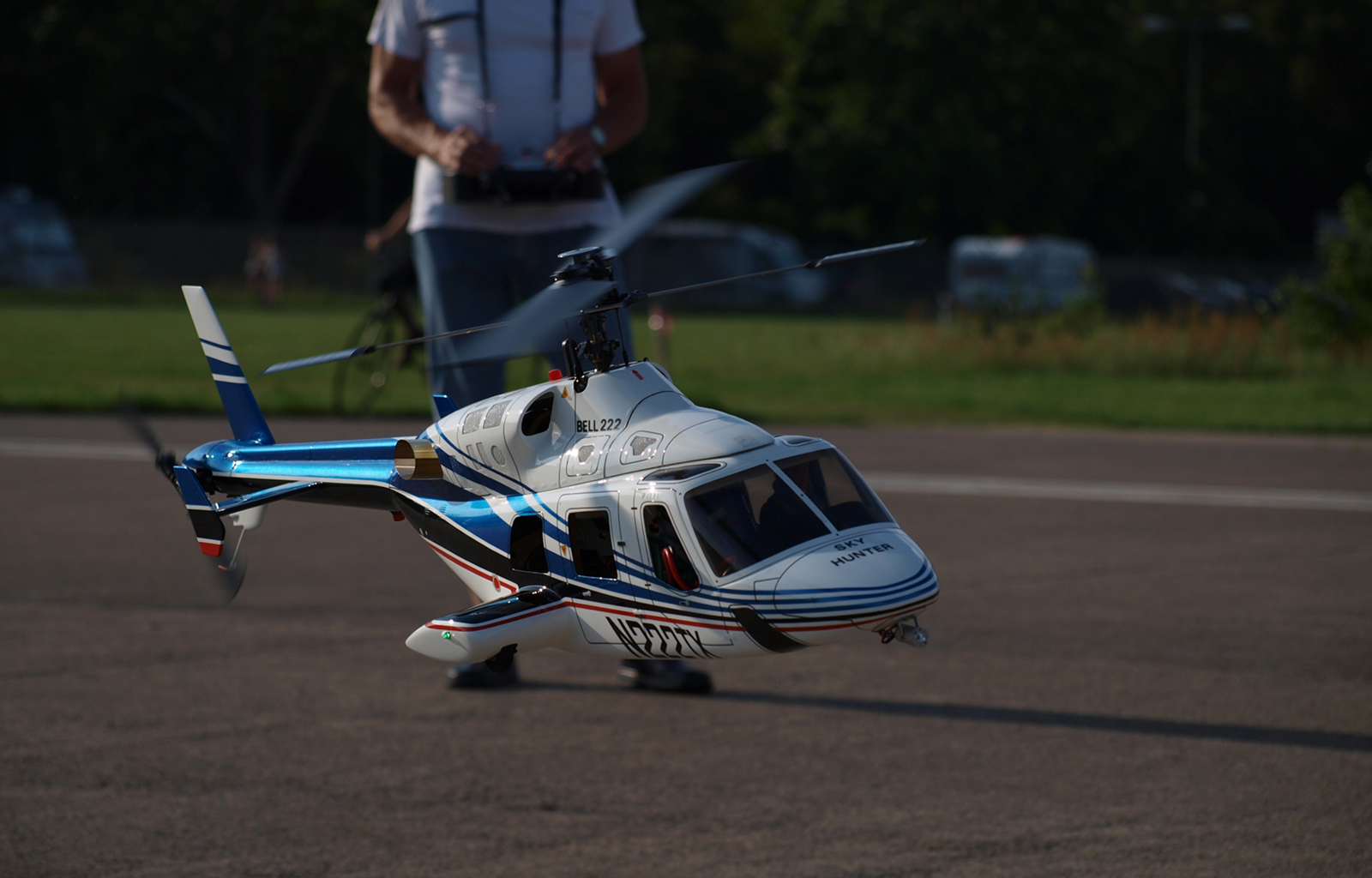 RC helicopter model (Bell 222) powered by batteries with pilot in the background.